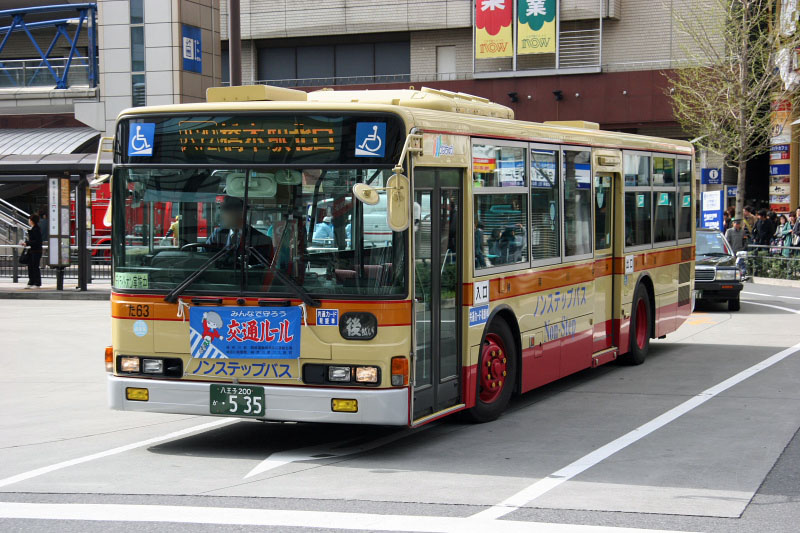 Kanagawa Chuo Kotsu's route bus (Car No.た63 / Mitsubishi Fuso Aero Star KL-MP37JM / MBM body) at Hachioji Station North Exit, Hachioji, Tokyo, Japan.